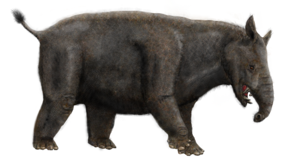 Reconstruction of the astrapotheriid Parastrapotherium, from the Oligocene of Argentina.